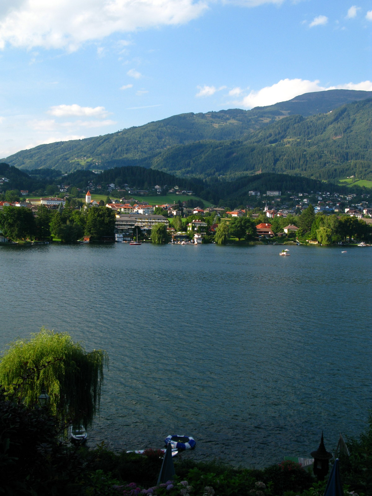 Seeboden / Carinthia / Austria / European Union. The photo shows the church and the district Wirlsdorf. There are hotels on the lakeshore.